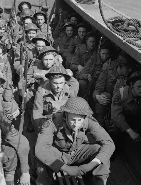 PA-136281 Royal Navy Beach Commandos aboard a Landing Craft Assault of the 529th Flotilla, Royal Navy, during a training exercise off the coast of England, 9 May 1944.